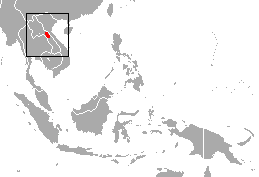 Laotian Langur (Trachypithecus laotum) range